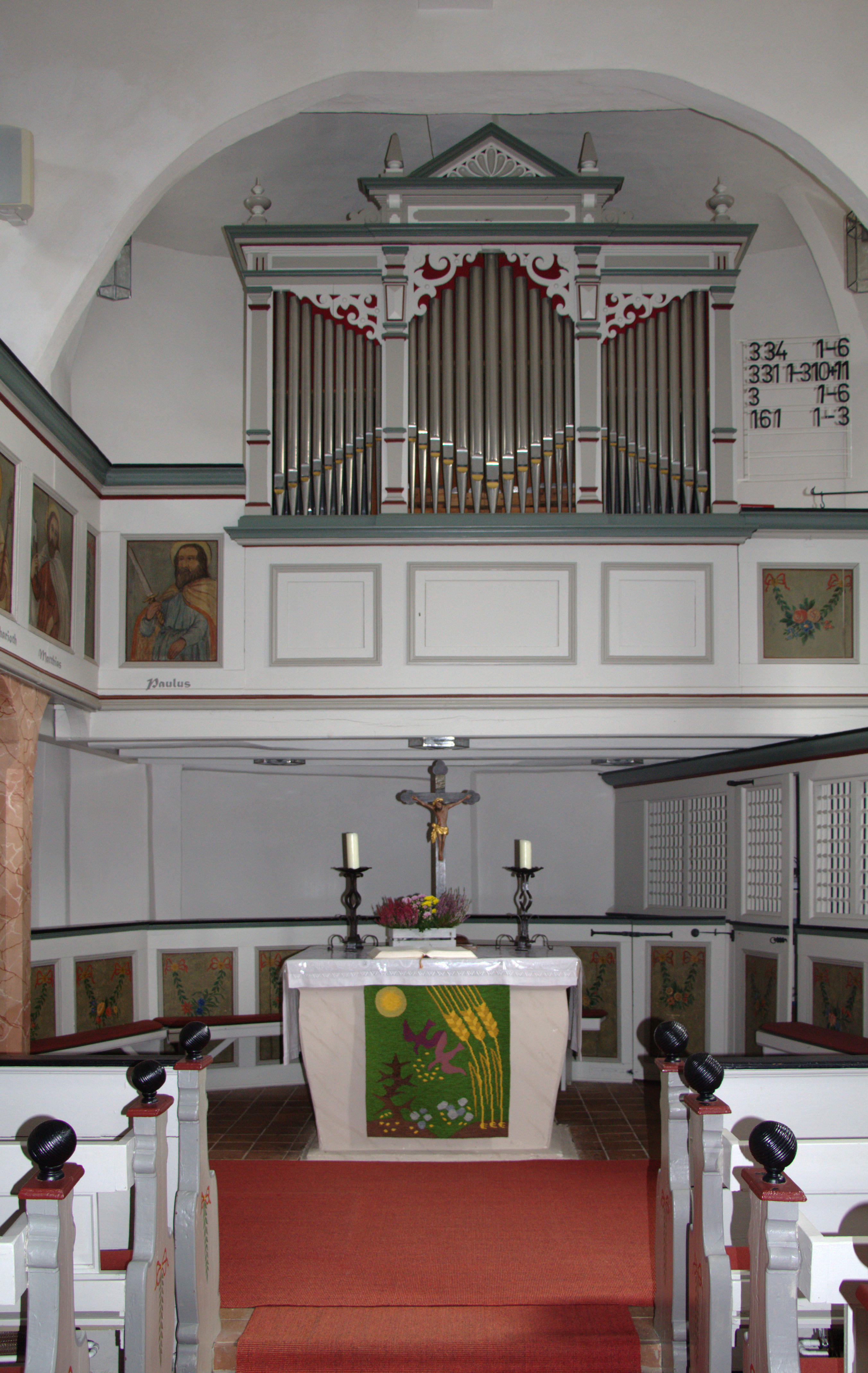 Protestant church (Detail: Altar,Organ) in Ulrichstein, Unter-Seibertenrod Eichwaldstrasse, Hesse, Germany